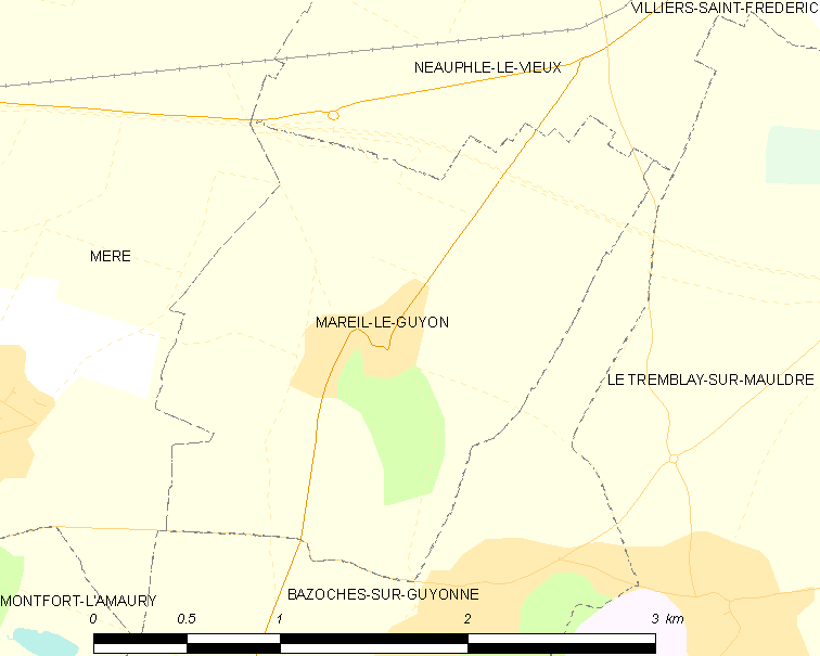 Map of French municipality Mareil-le-Guyon